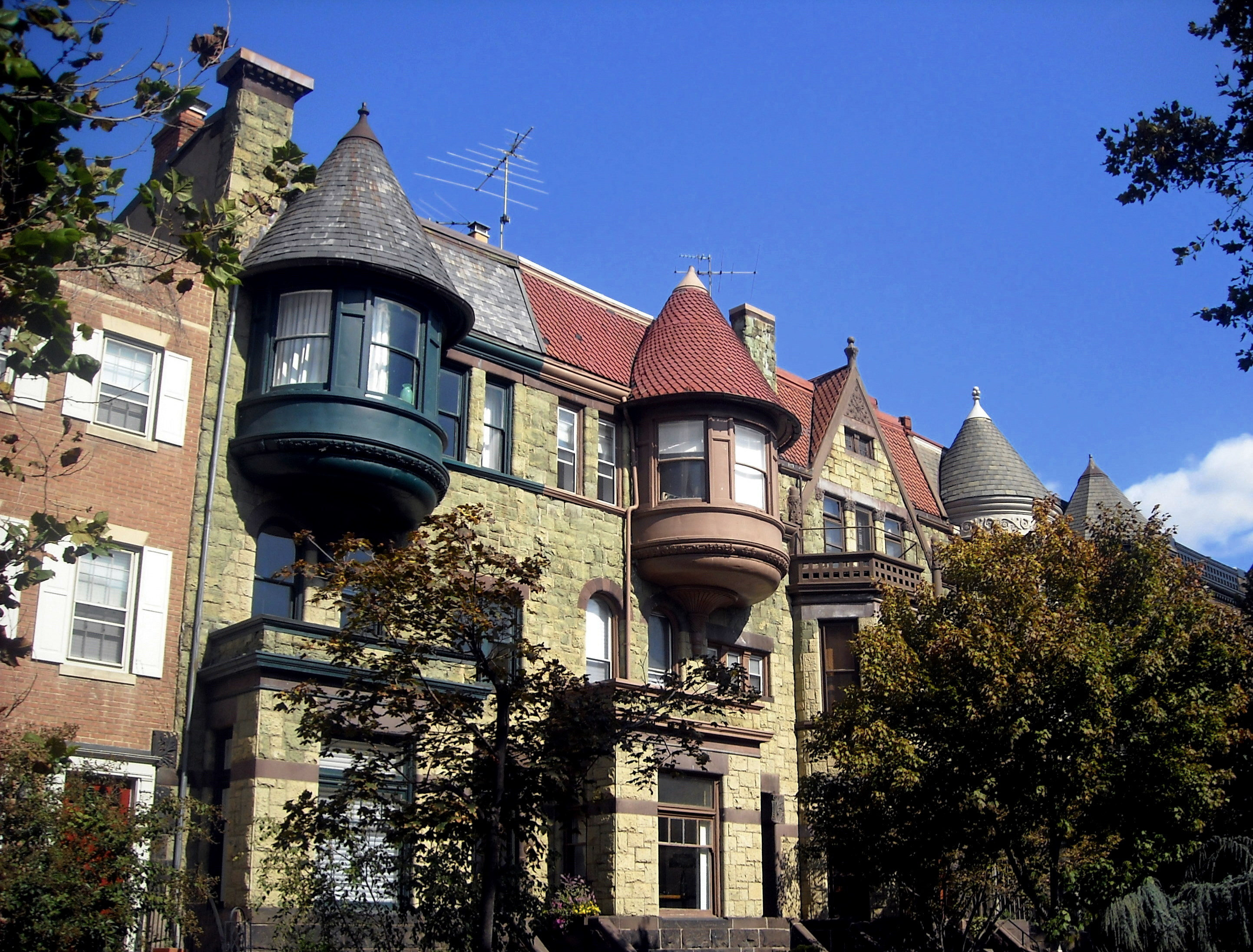 Row houses located on the 1700 block of Q Street, NW in the Dupont Circle neighborhood of Washington, D.C. Designed and constructed by Thomas Franklin Schneider in 1889-1892, the houses are considered some of Washington's best examples of Richardsonian Romanesque architecture. The buildings are contributing properties to the Dupont Circle Historic District.